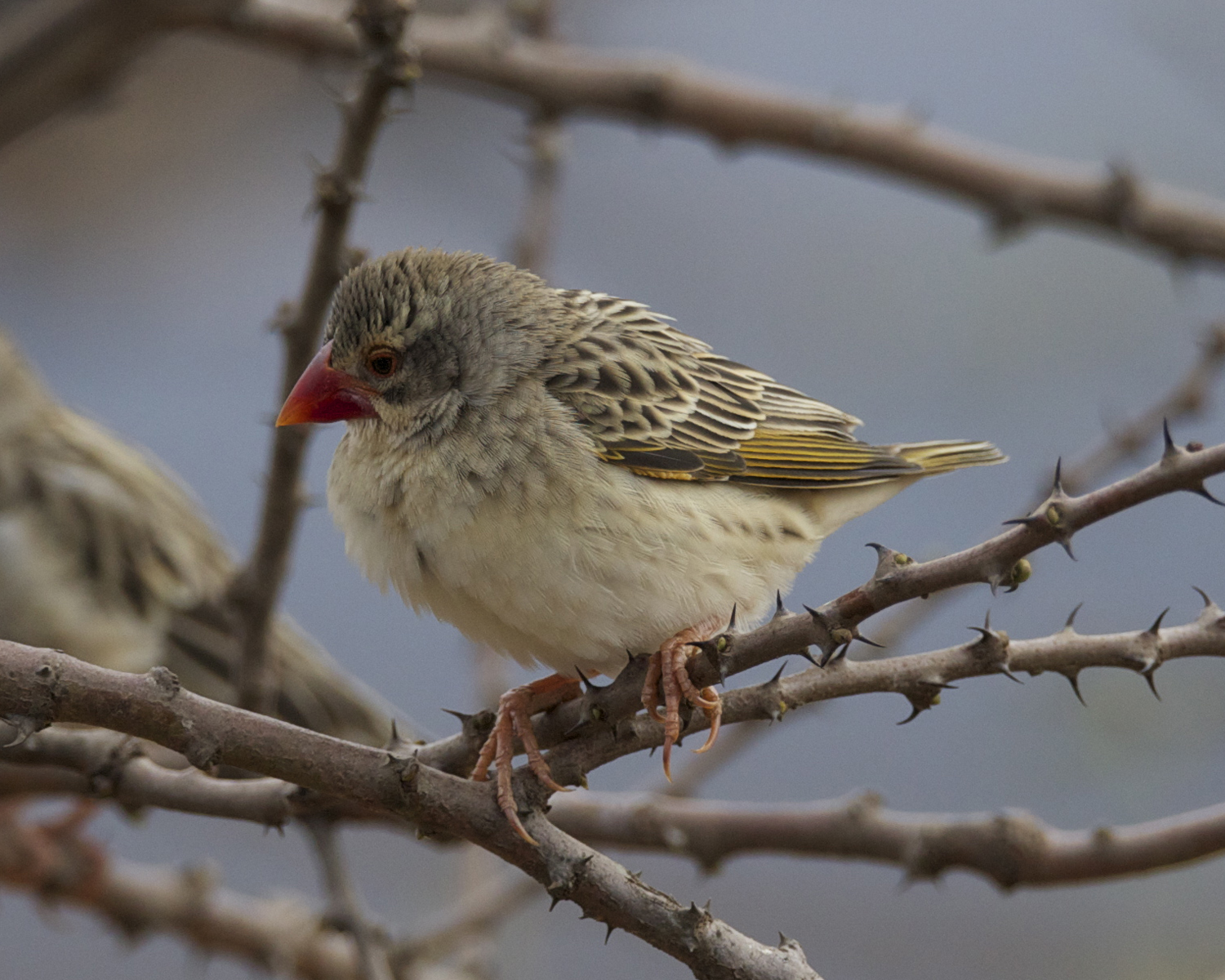 Red-billed Quelea female Quelea quelea Kambi ya Tembo, Tanzania 2nd. September 2012 CF2P1406